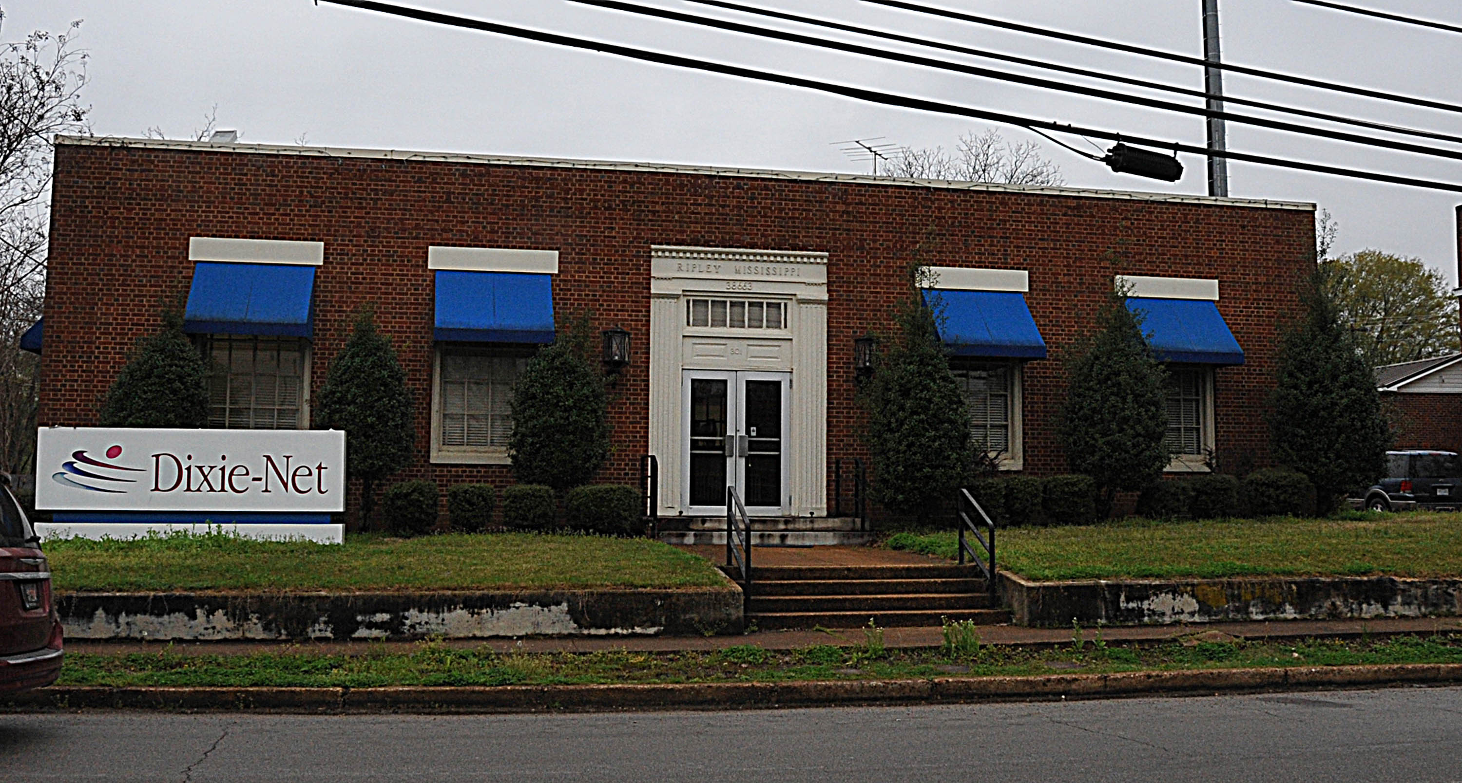 LOCATED AT 301 N. MAIN BUILT IN THE 1930’S A NEWER POST OFFICE HAS BEEN BUILT AND THE BUILDING IS OCCUPIED BY DIXIE NET, A COMMUNICATIONS COMPANY